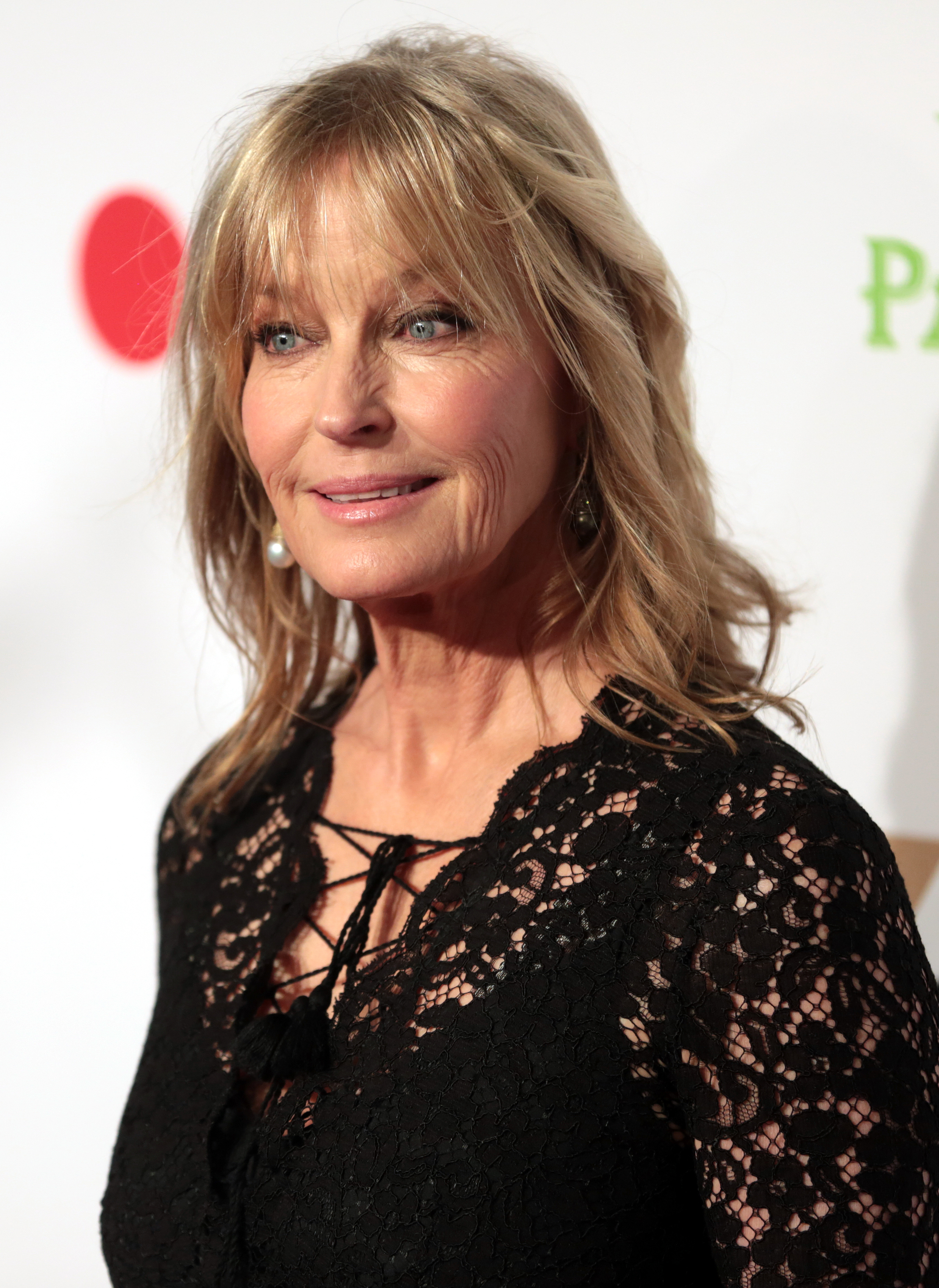 Bo Derek at Celebrity Fight Night XXIV in Phoenix, Arizona.